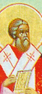 An icon depicting Paul IV of Constantinople (died in 784).